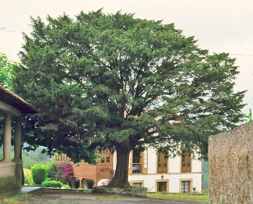 A old yew [Taxus baccata]. Caravia la Alta, Asturias, Spain